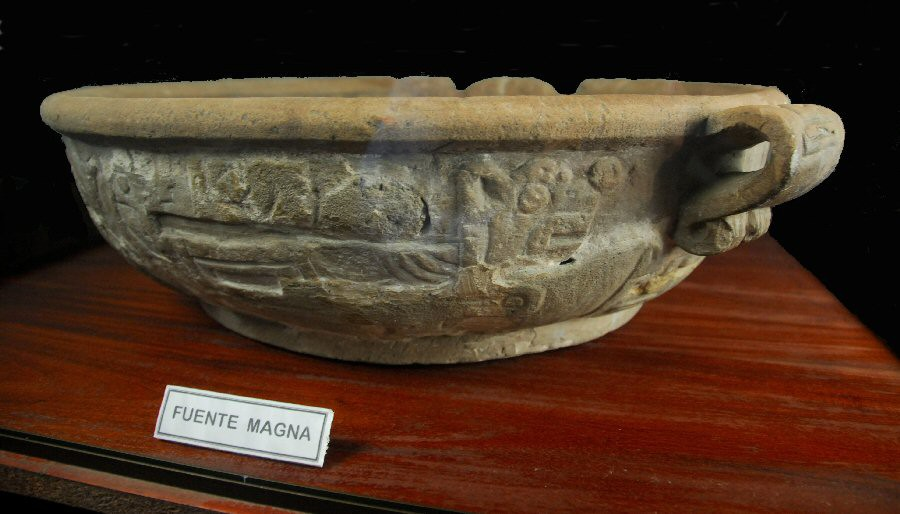 none none